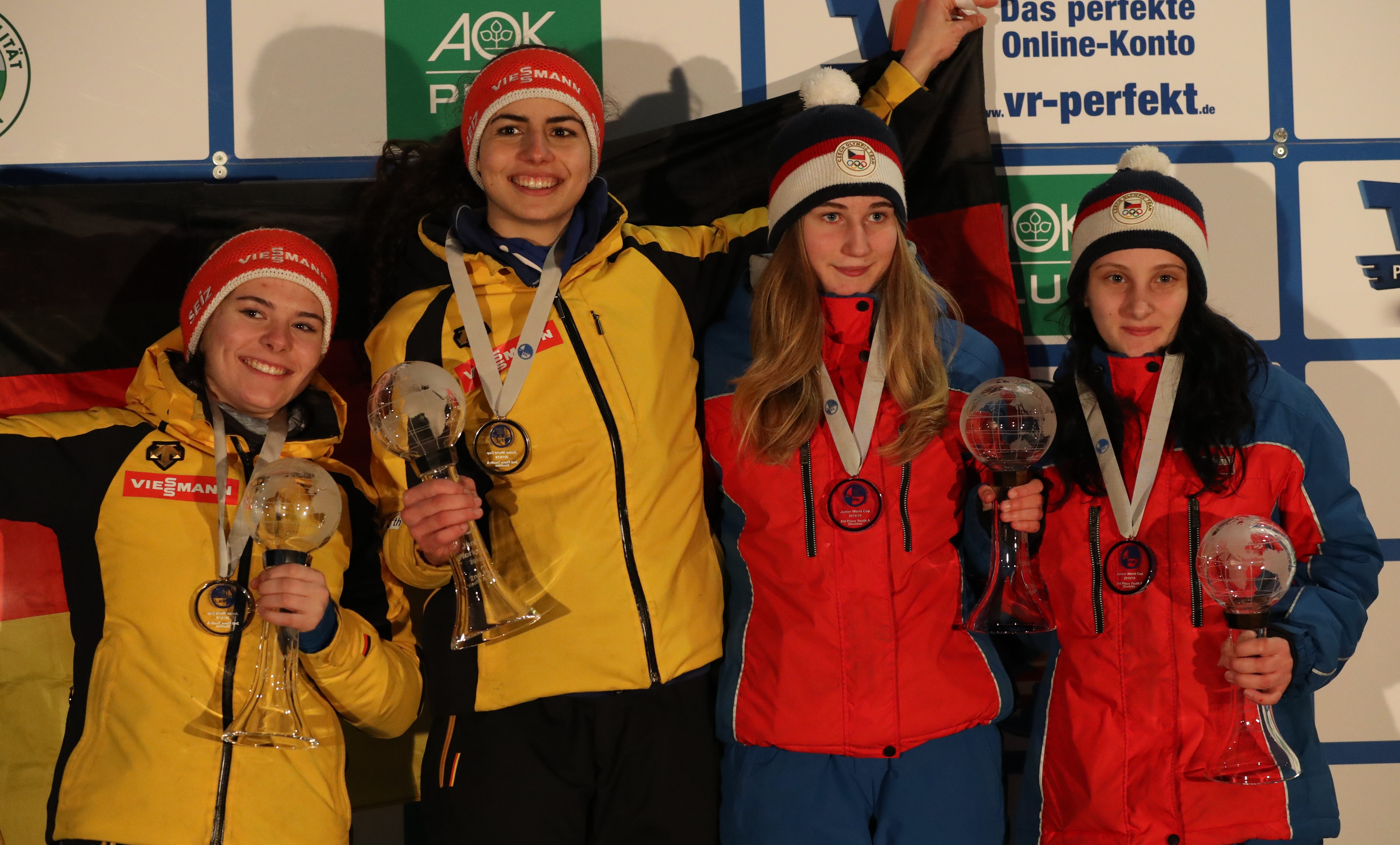 Fridays Victory Ceremonies at the 2018/19 Juniors and Youth A Luge World Cup in Oberhof